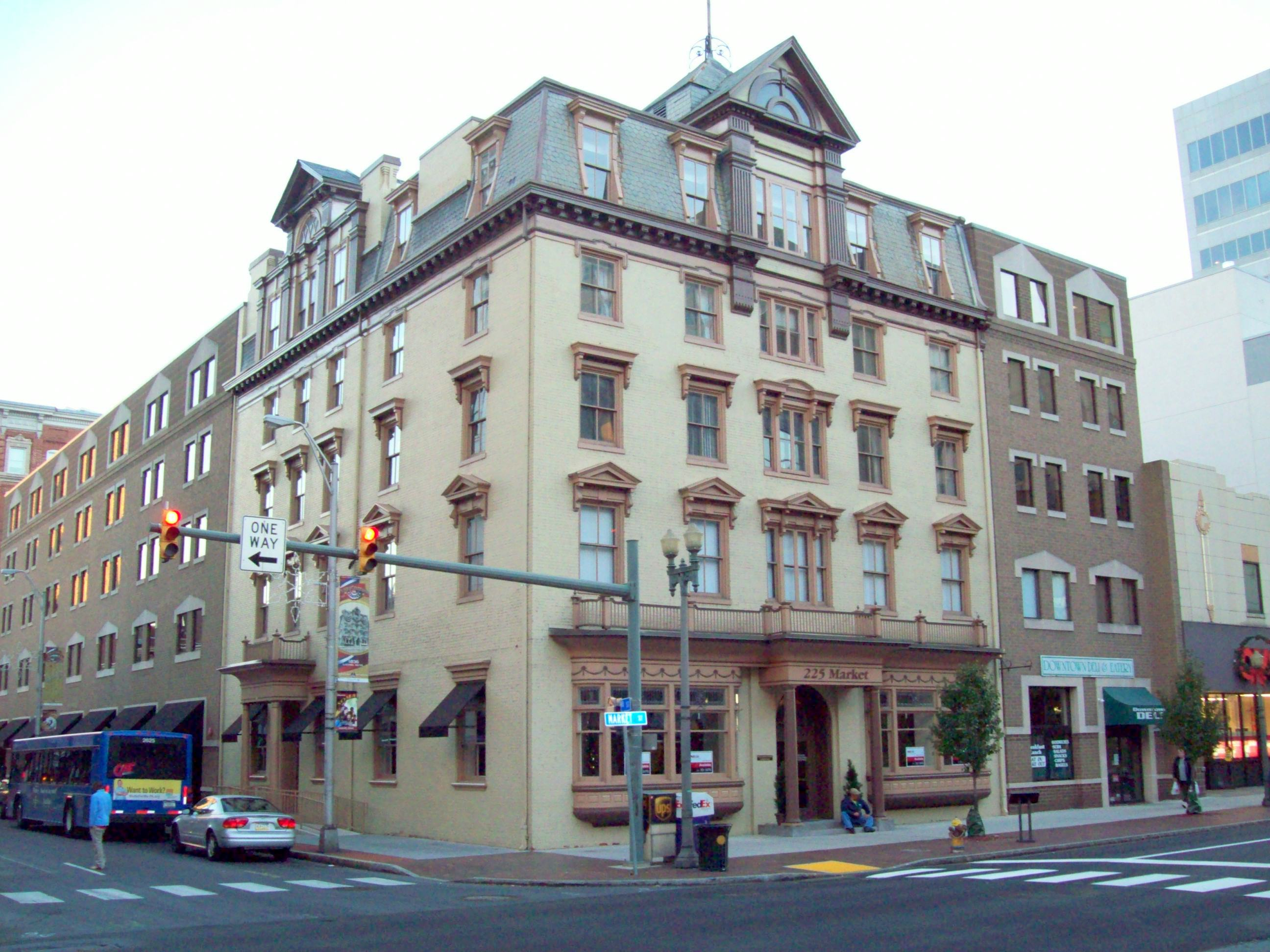 Colonial Theatre, Harrisburg PA. November 2010